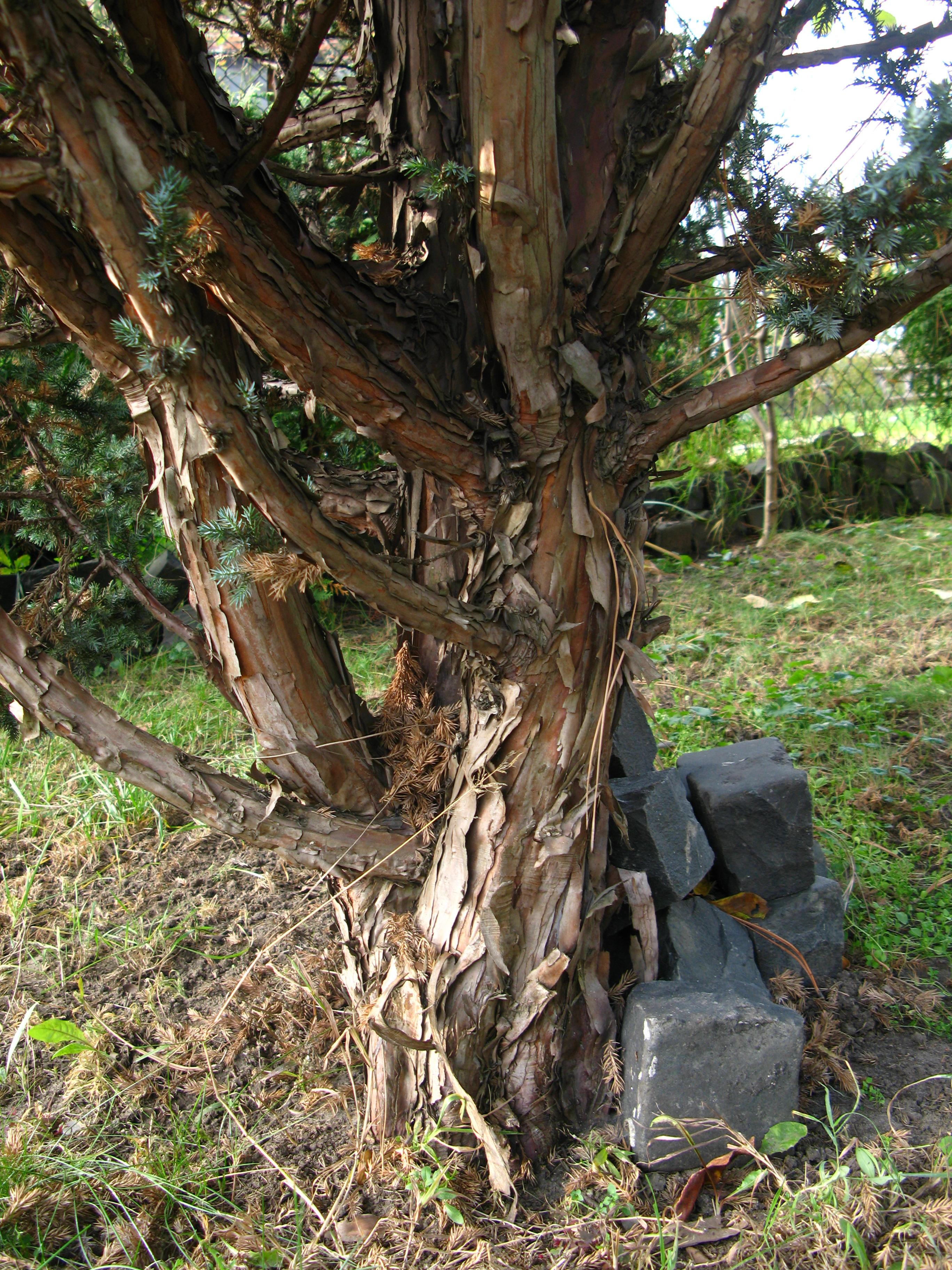 Juniperus squamata 'Meyeri'